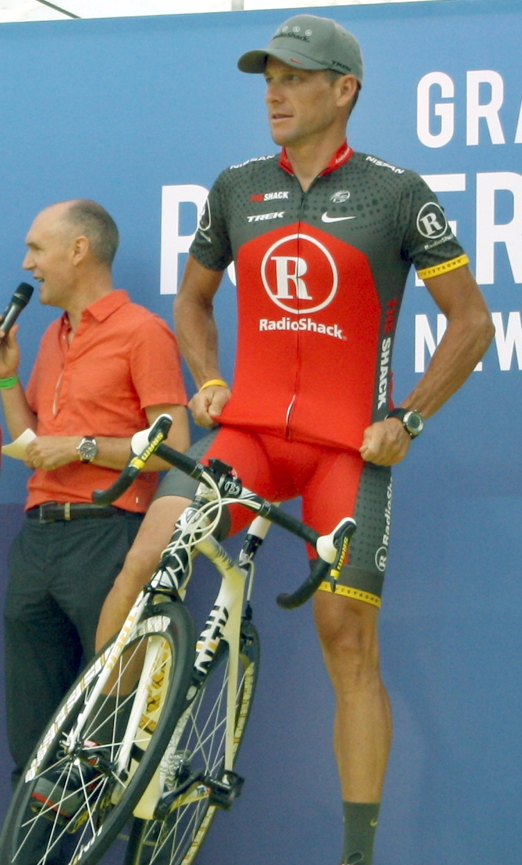 Lance Armstrong at the team presentation of the 2010 Tour de France in Rotterdam